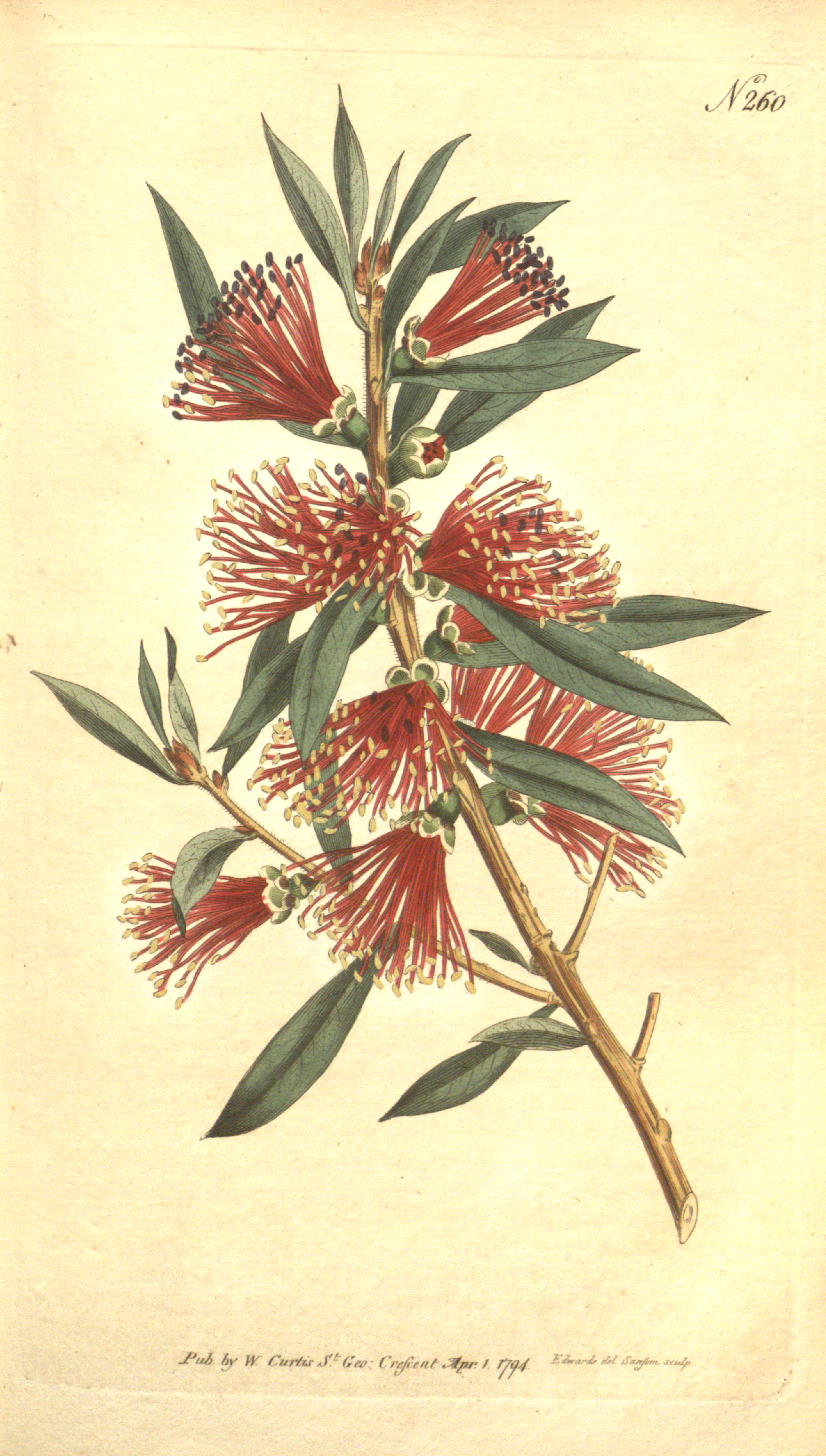 This is a plate from The Botanical Magazine, Volume 8.